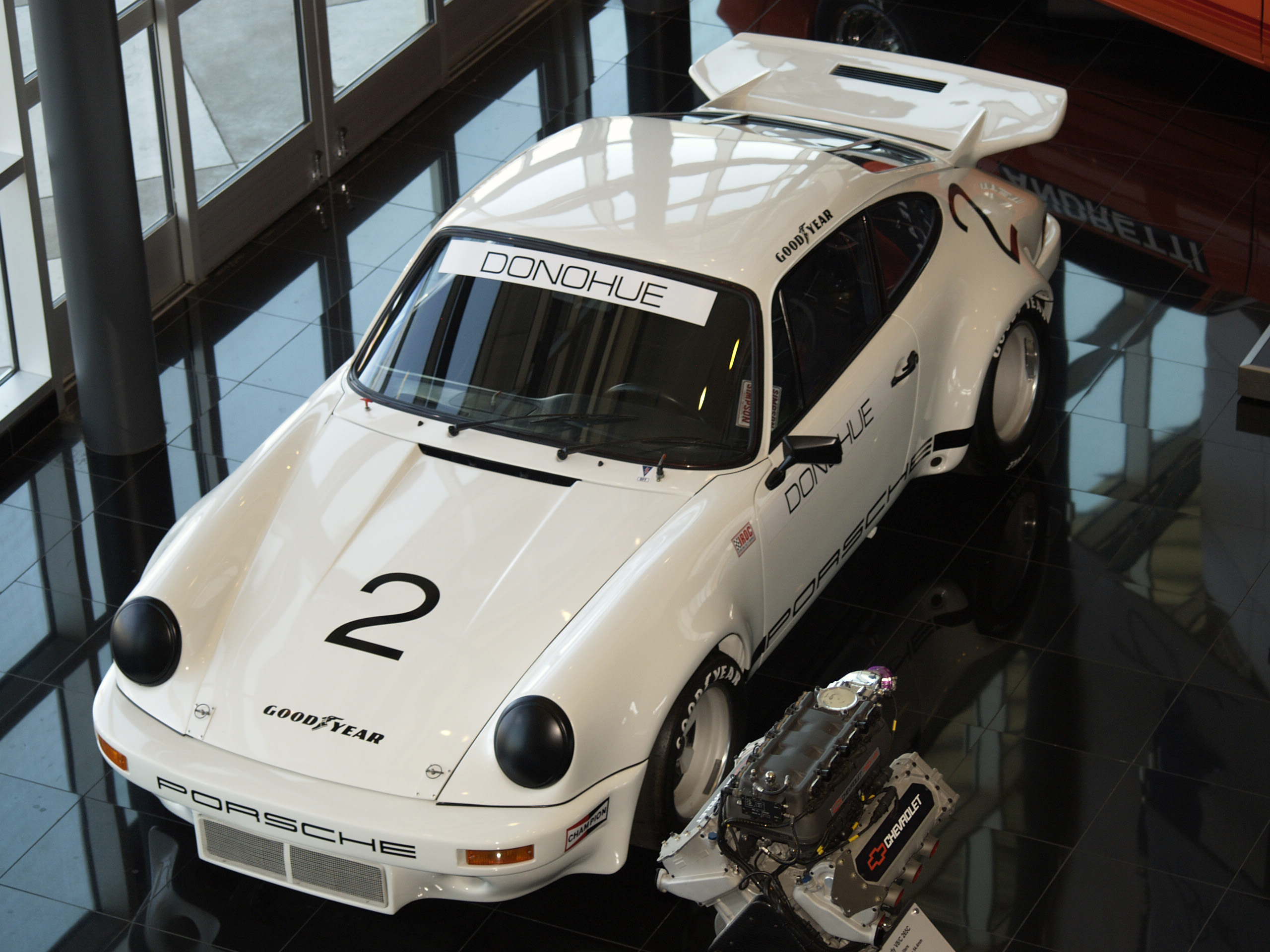 The Porsche Carrera RSR in which Mark Donohue won the inaugural International Race of Champions in 1974, on display at the Penske Racing Museum in Scottsdale, Arizona, USA.